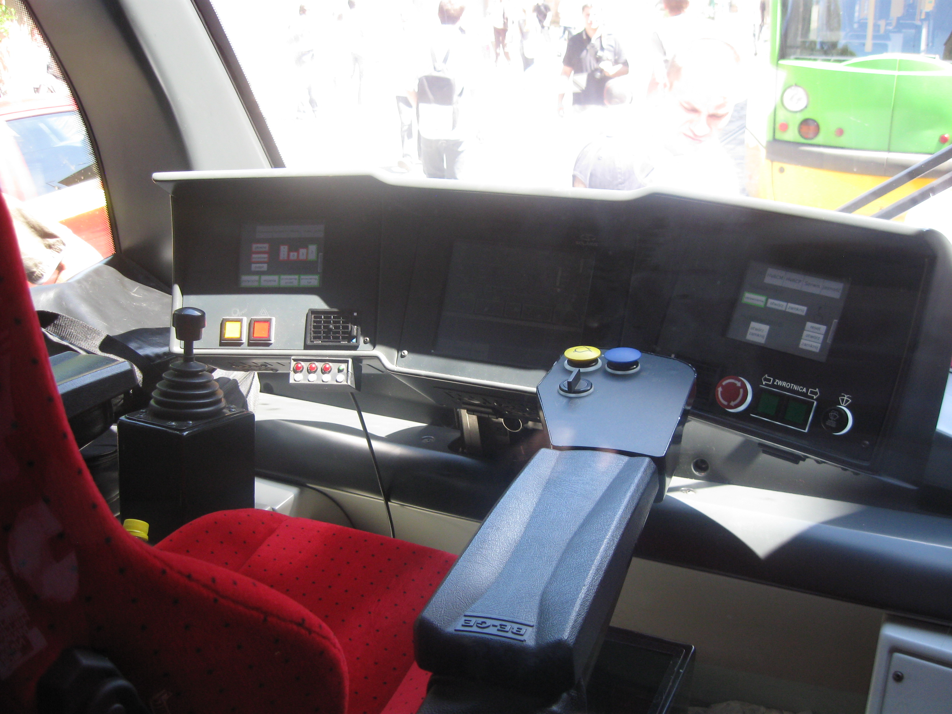 Solaris Tramino interior - motorman's control panel. The tram was presented during the 130th anniversary of public transport in Poznań, Poland.